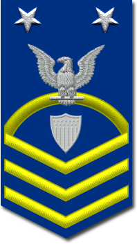 US Coast Guard Command Master Chief Petty Officer (CMC) insignia